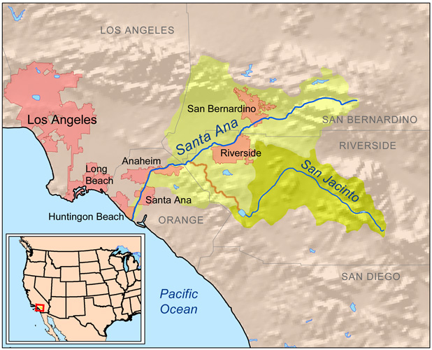 Map showing the Santa Ana River and San Jacinto River drainage basins, with Temescal Creek added, in orange. Southern California.